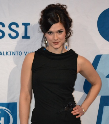 Krista Kosonen in 2011 Jussi Award.